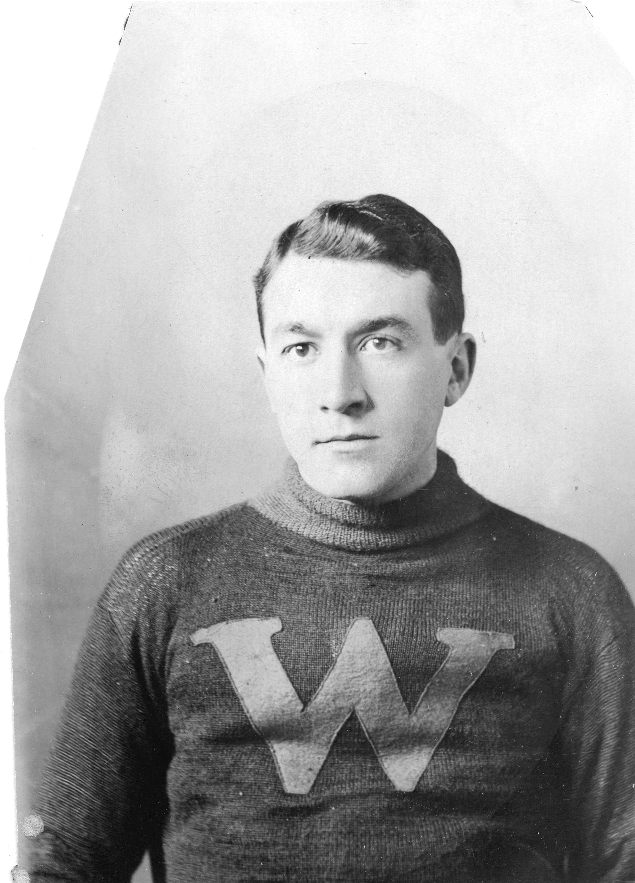 Photograph of ice hockey player Hugh Lehman, New Westminster Hockey Team Champions P.C.H.A.